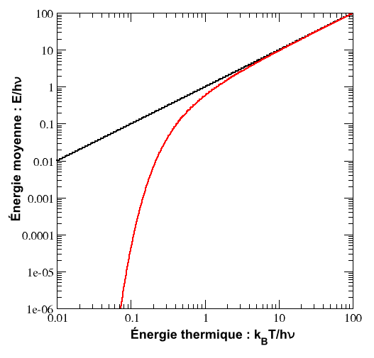 The figure plots the average energy of a quantum mechanical oscillator (in red) for different temperatures, and compares it with the value predicted by the equipartition theorem (in black). Image:Et fig2.png translated into french.